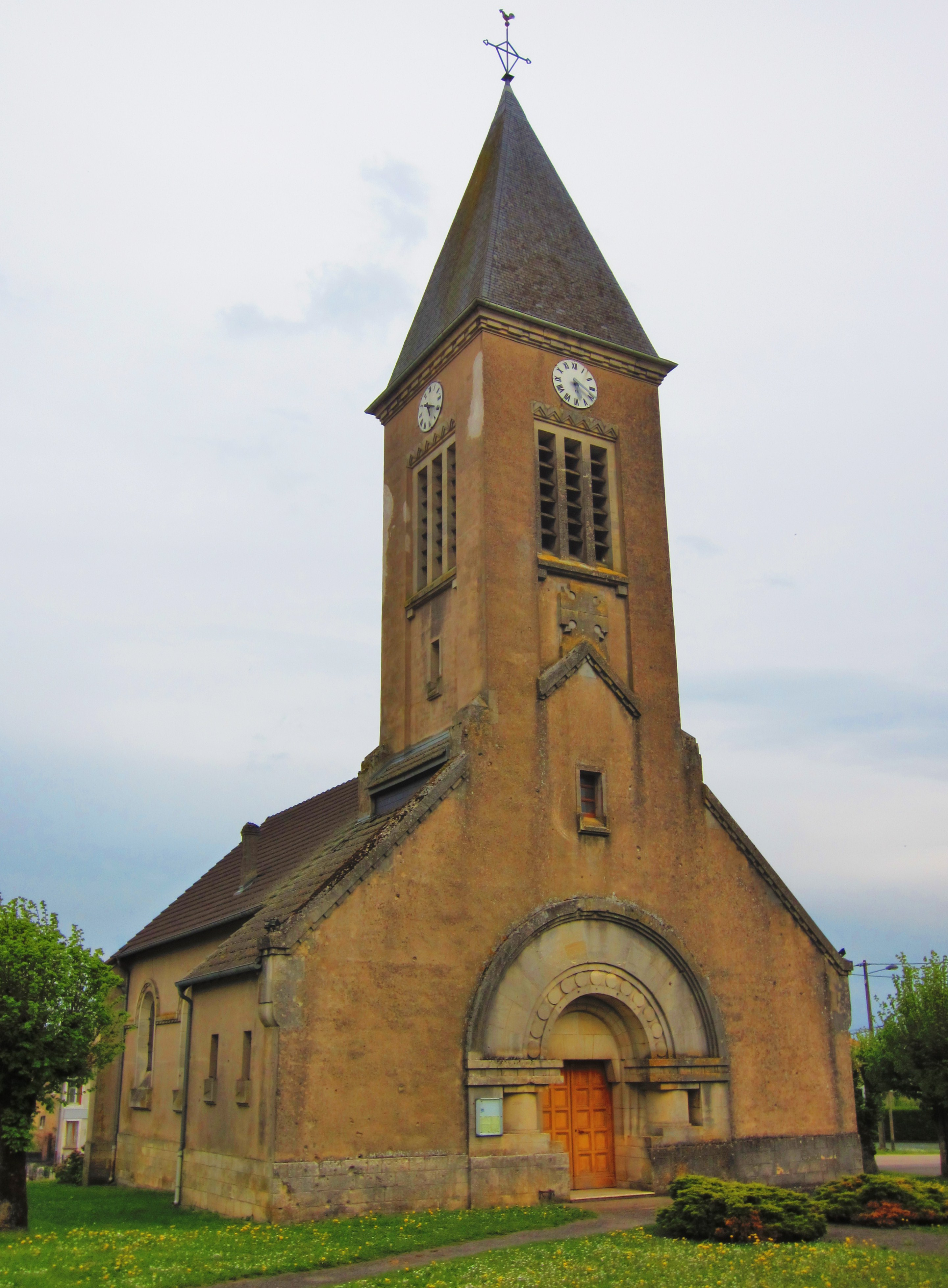 Apremont Foret church